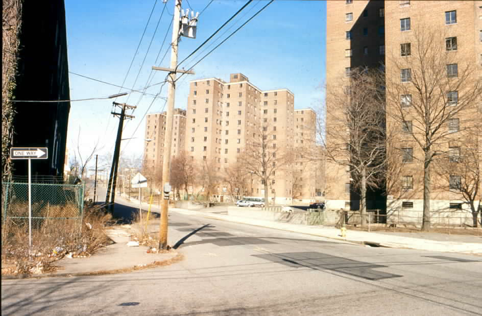 Semi-abandoned buildings in 1967 riot area, Newark, New Jersey, United States.